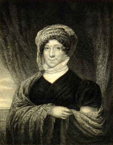 Dolley Madison